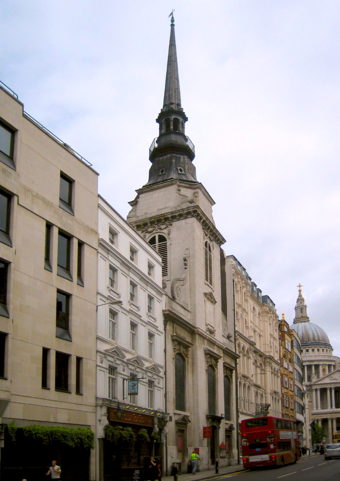 St Martin, Ludgate (St Paul's Cathedral in background)